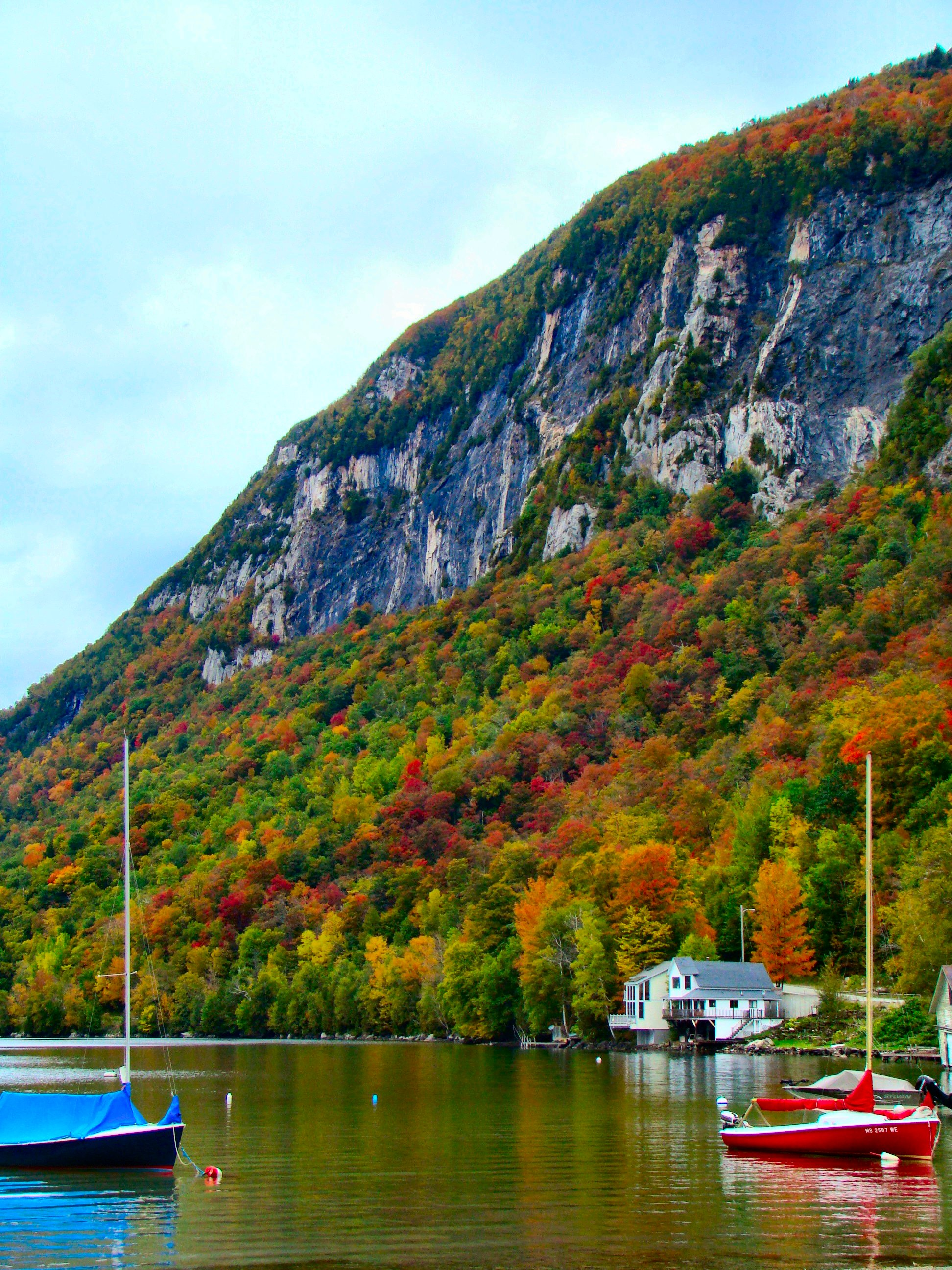 Mt Pisgah Flanks the Eastern Side of Lake Willoughby